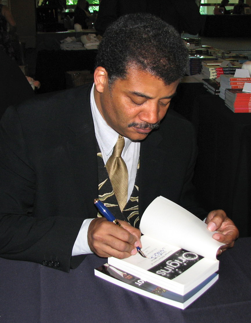 Neil deGrasse Tyson siging a copy of his book "Origins". Portrait taken at JREF's TAM6, The Amazing Meeting.